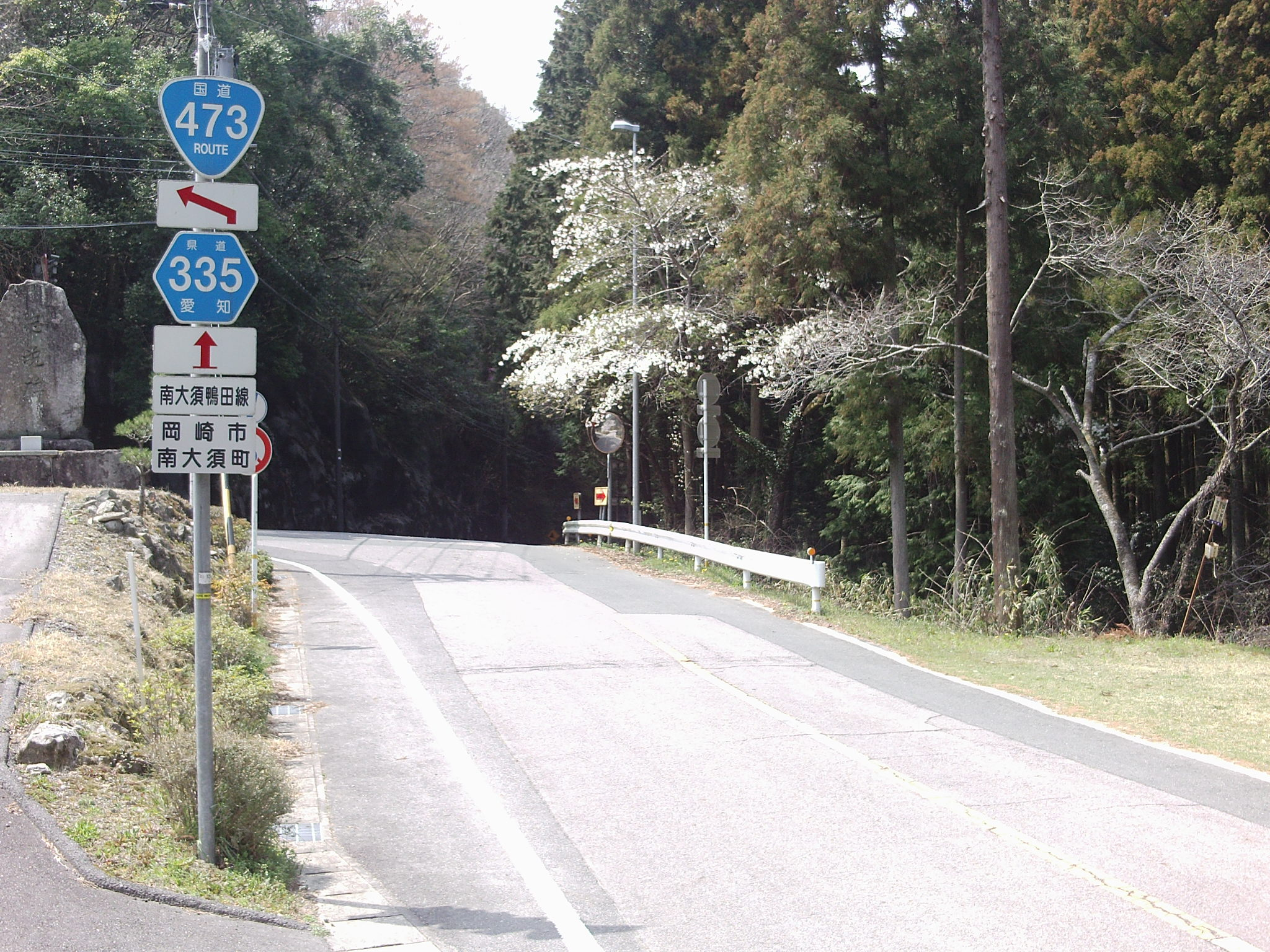 Aichi prefectural road No.335 in Minamiosucho, Okazaki, Aichi.